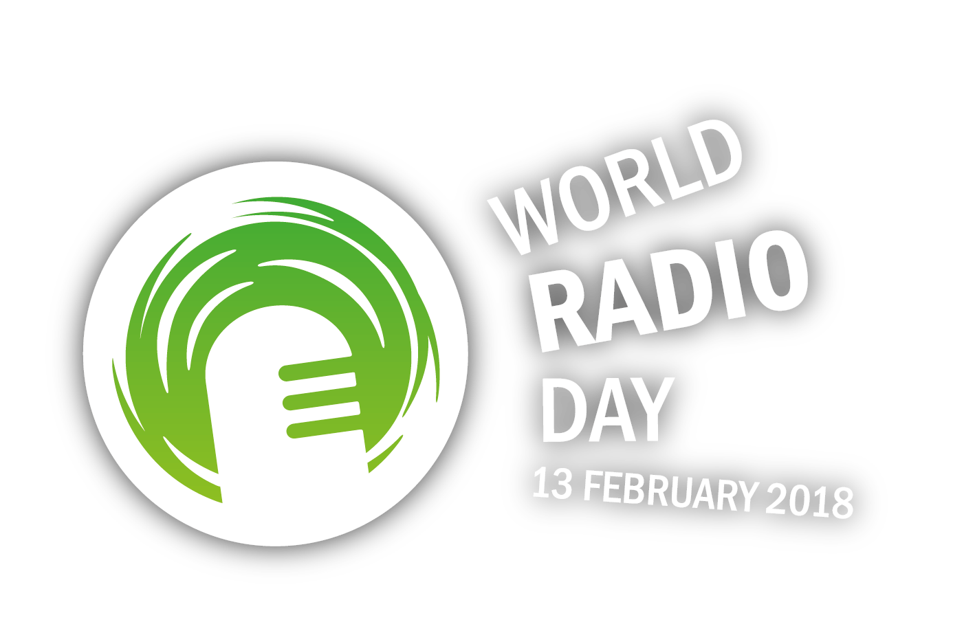 Logo - World Radio Day 2018